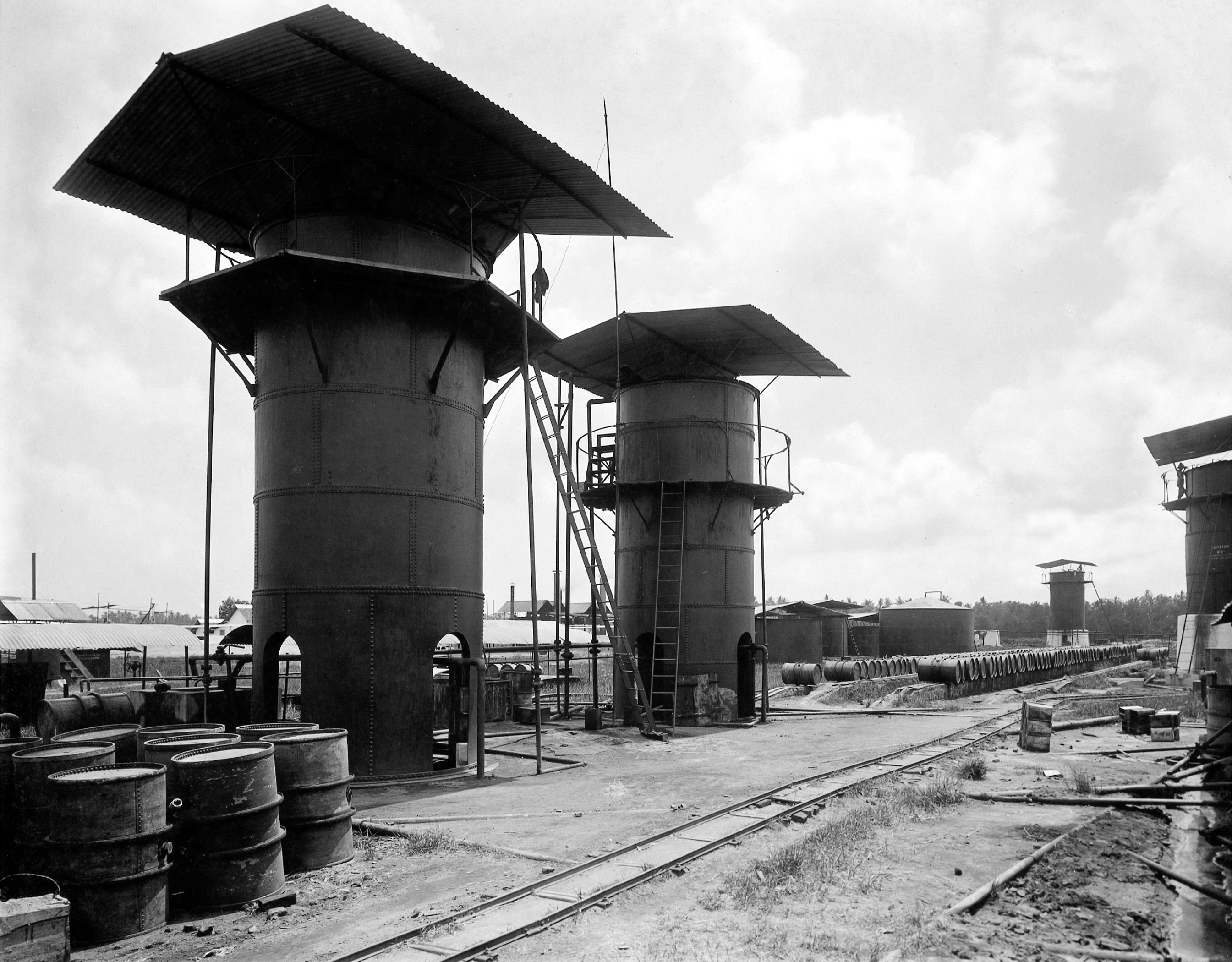 Refinery Dordtsche Petroleum Company in Wonokromo, Surabaya, East Java, Indonesia (Netherlands East Indies)1892-1910